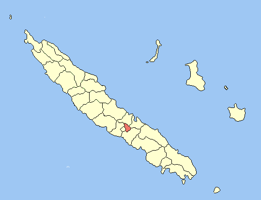 Created map myself.